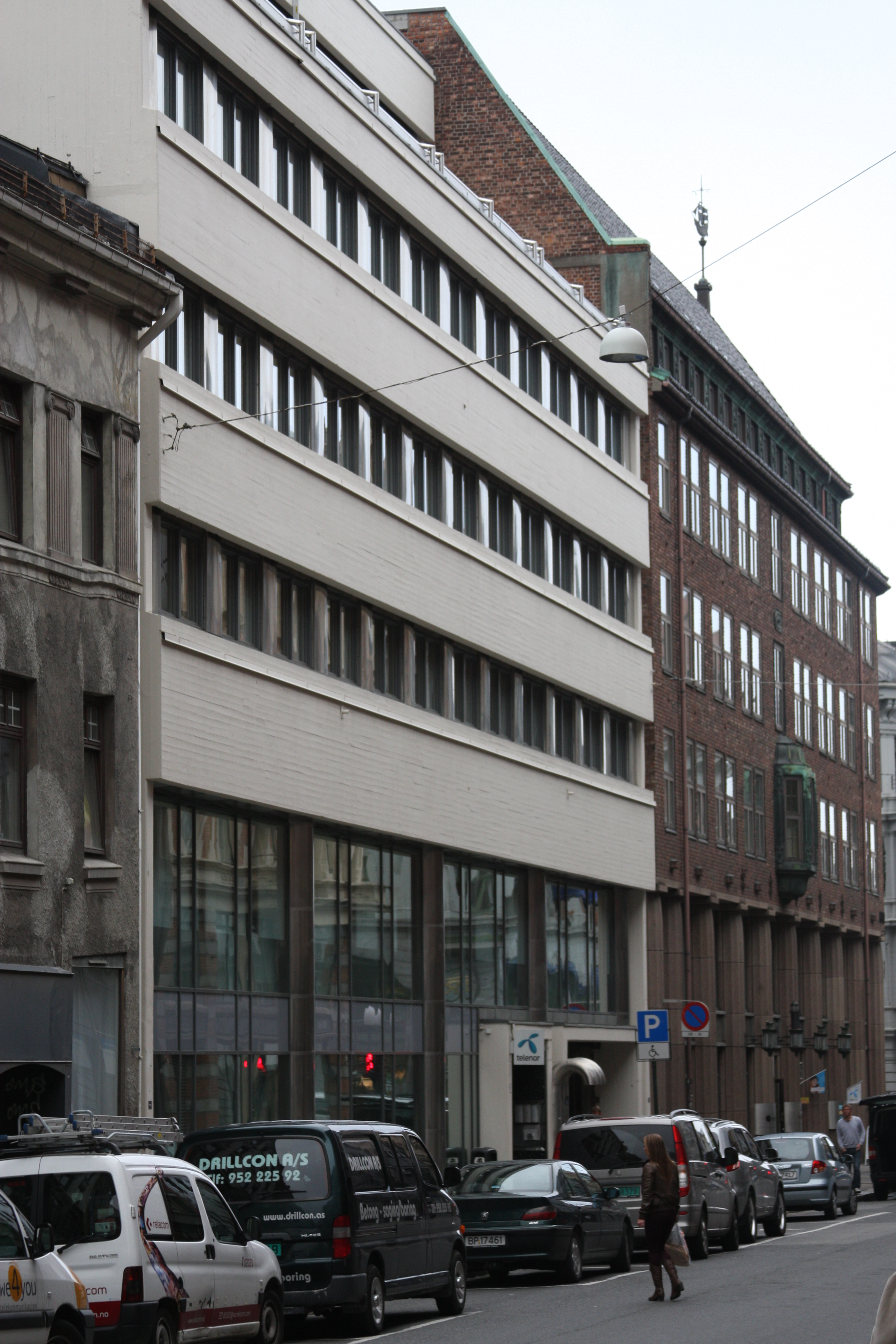 Conax headquarters, Oslo